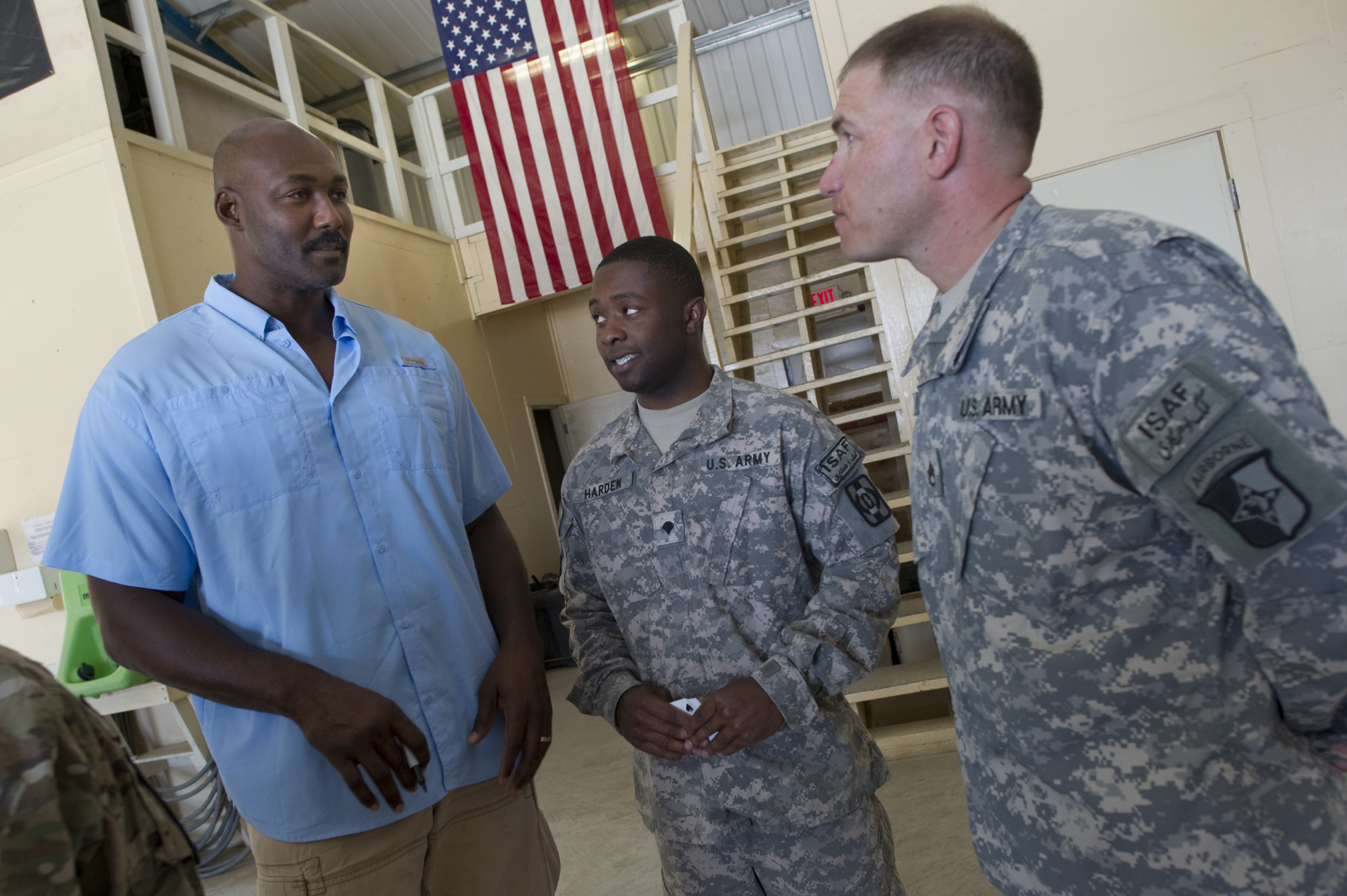 110801-N-TT977-278 NBA Legend Karl Malone visits with Soldiers assigned to Bagram Mortuary Affairs, Afghanistan, August 1, 2011. Malone, along with magician David Blaine are on a five-day USO tour with Adm. Mike Mullen, chairman of the Joint Chiefs of Staff visiting troops in Afghanistan and Iraq. DoD photo by Mass Communication Specialist 1st Class Chad J. McNeeley/Released)